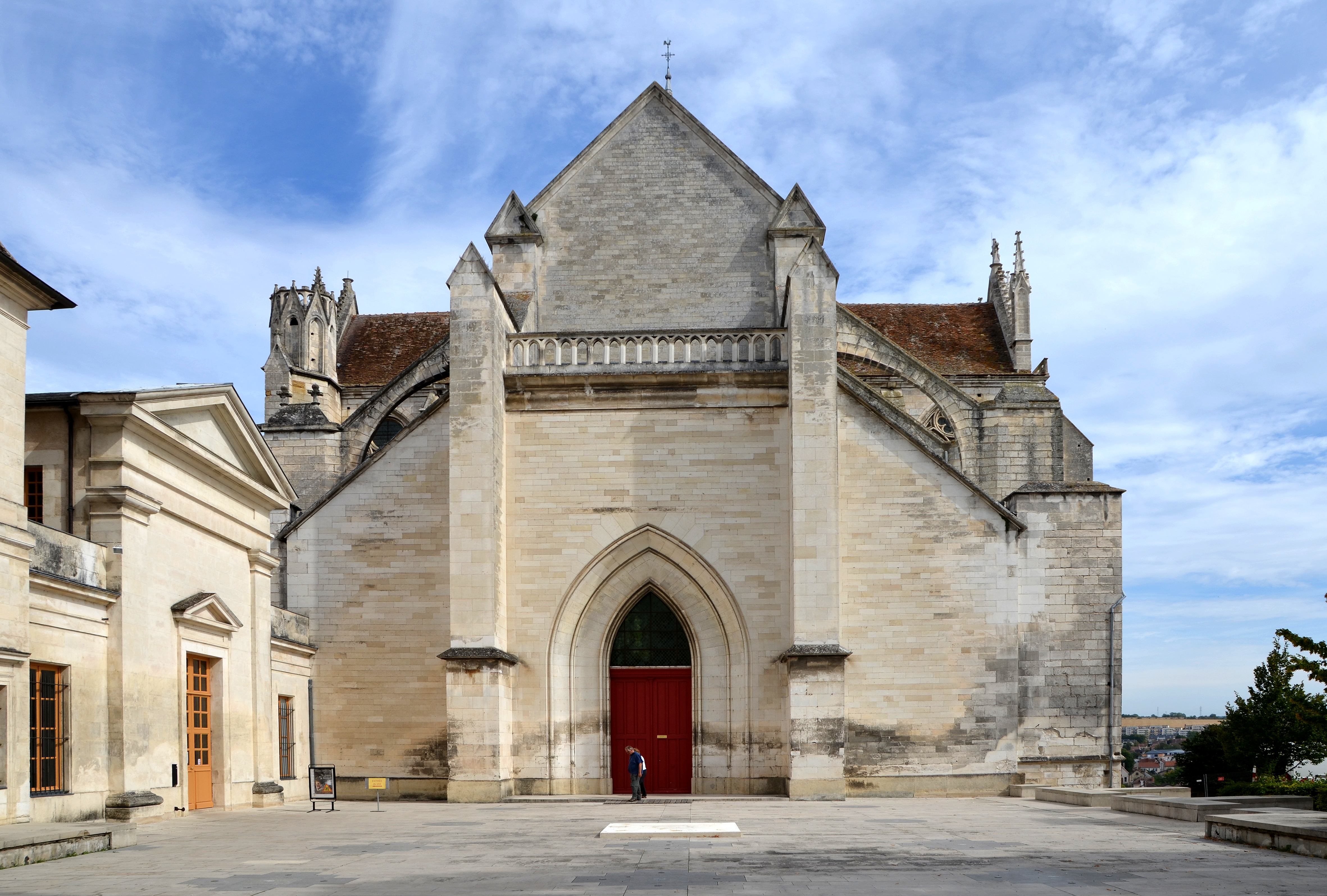 Church of athe abbey of Saint-Germain in Auxerre, Yonne, Burgundy, France